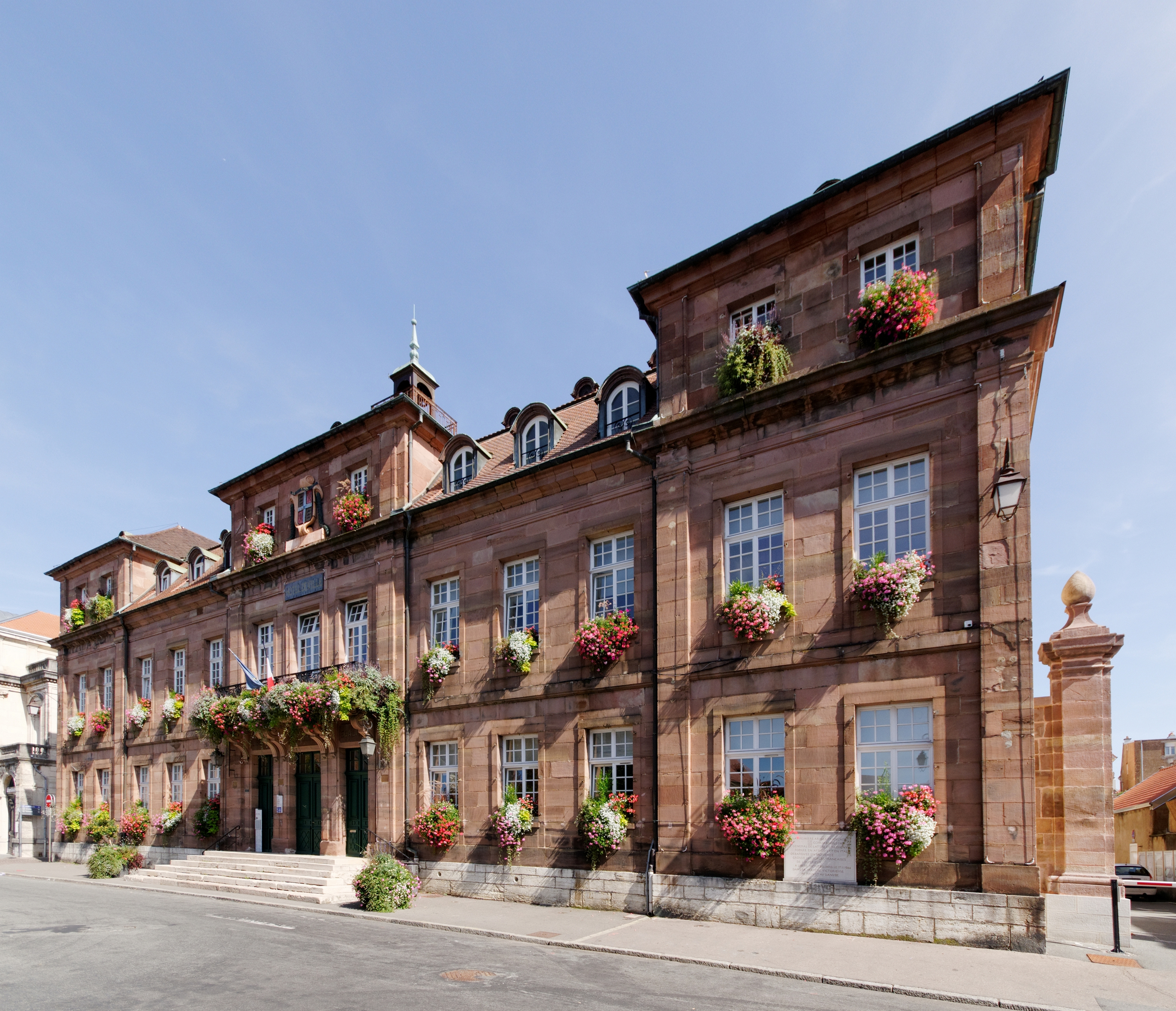 This photograph was taken with a Nikon D300 Hôtel de ville de Montbéliard (monument classé MH n°PA00101677).